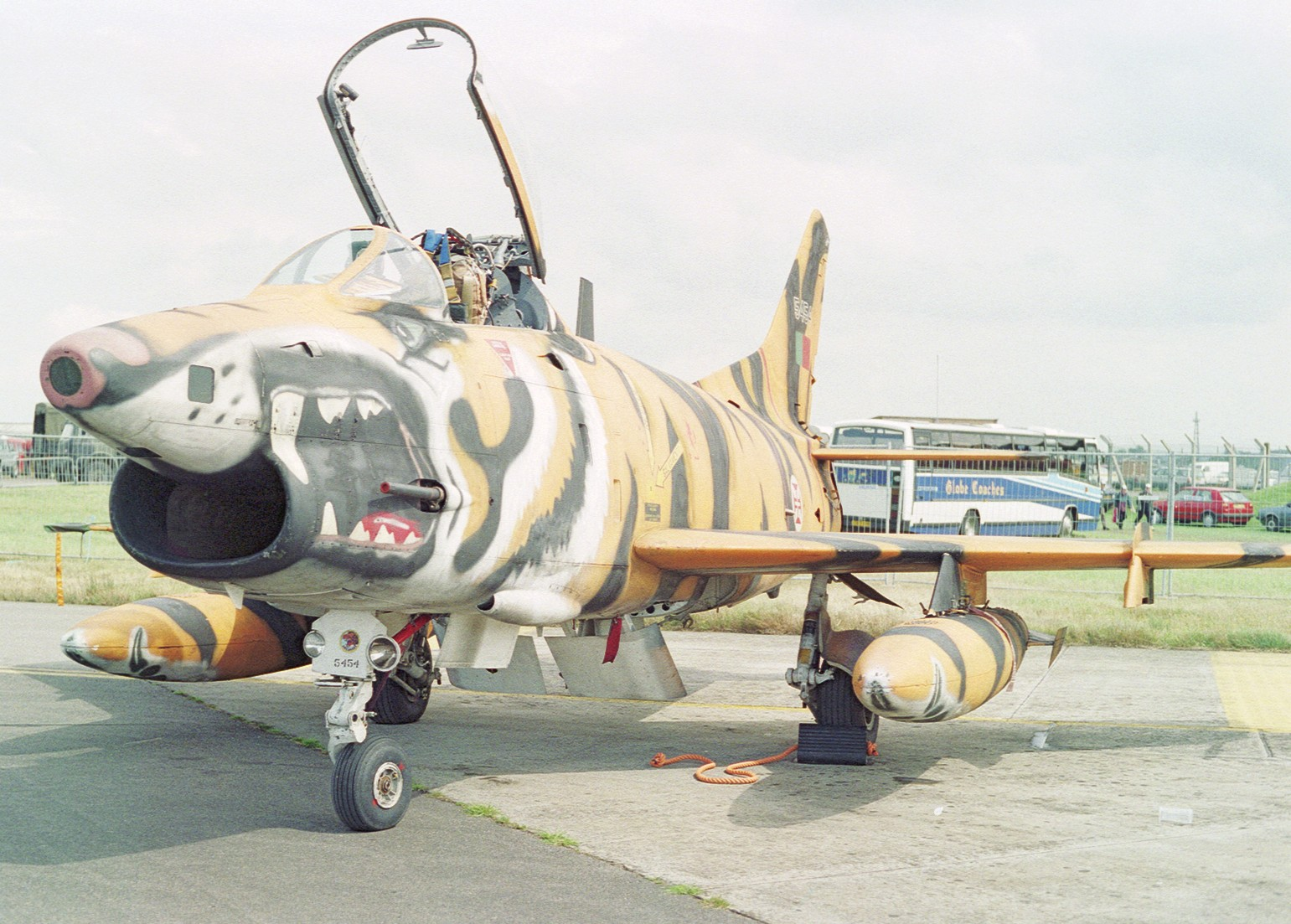 Fairford (FFD / EGVA) UK - England, July 24, 1993.